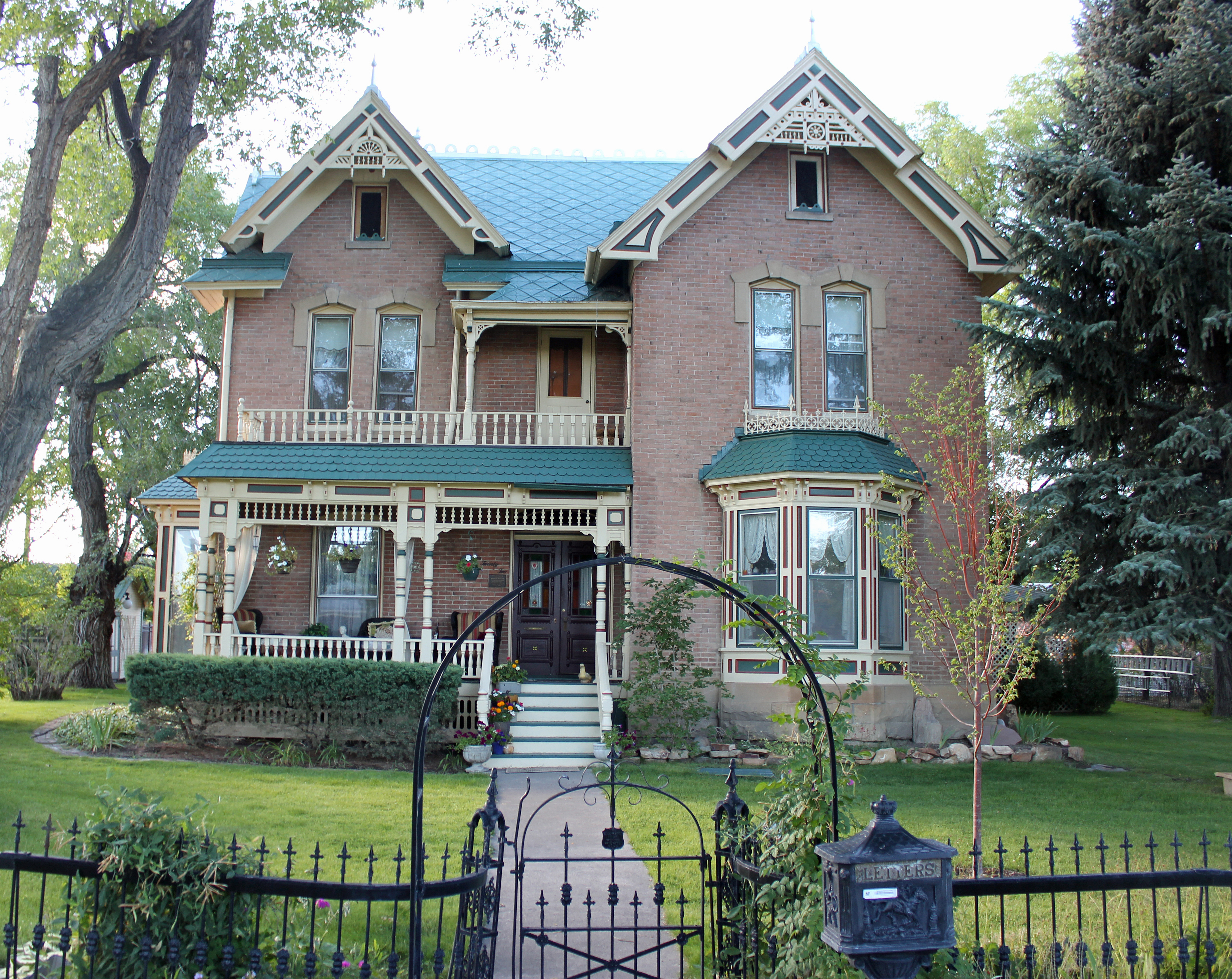 The Thomas B. Townsend House, located at 222 South 5th Street in Montrose, Colorado. The property is listed on the National Register of Historic Places.